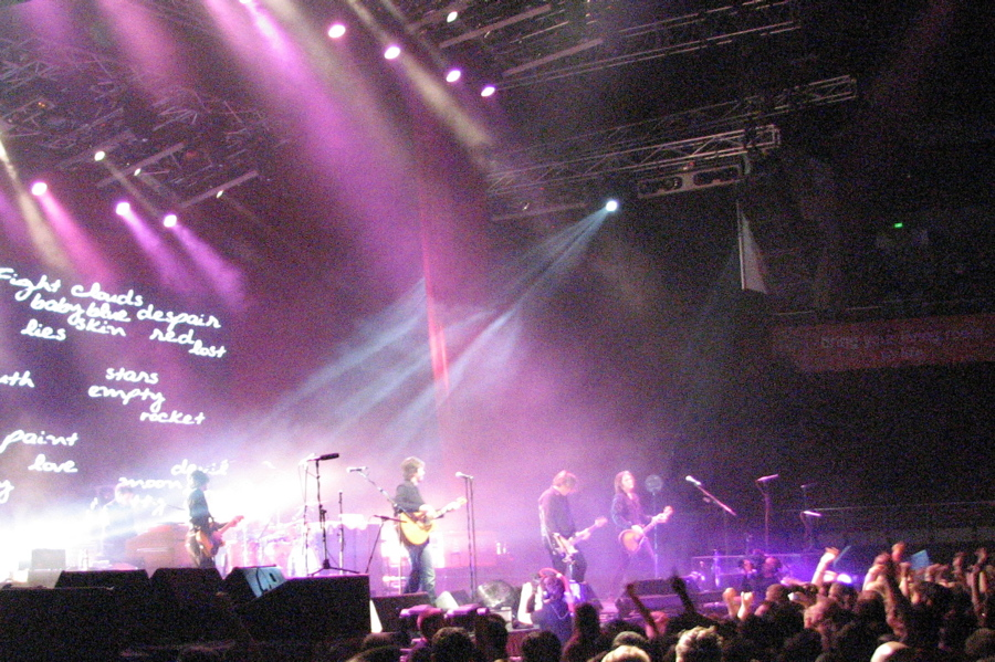 A photograph of Australian rock band Powderfinger performing "I Don't Remember at a September 2007 tour.